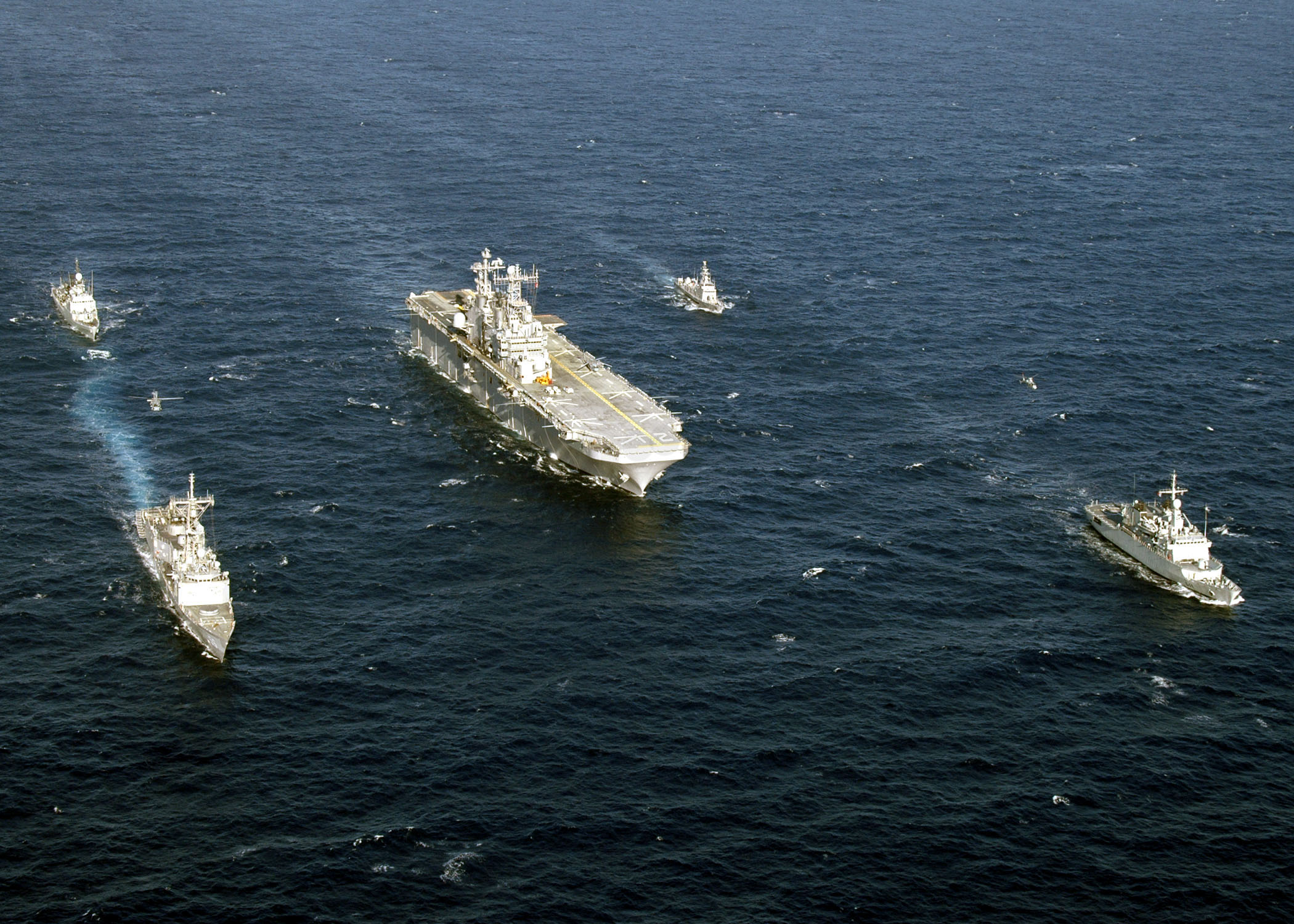 Mediterranean Sea (June 4, 2006) - The five ships participating in exercise Phoenix Express 2006, amphibious assault Ship USS Saipan (LHA 2), guided-missile frigate USS Simpson (FFG 56), Armada Espanola Infanta Elena (P-6), Royal Moroccan Navy Frigate Mohammed V (611), and Algerian Naval Forces El Kirch (353) sail in formation in the Mediterranean Sea. Exercise Phoenix Express will provide U.S. and allied forces an opportunity to participate in diverse maritime training scenarios helping to increase maritime domain awareness and strengthen emerging and enduring partnerships. U.S. Navy photo by Photographer's Mate 3rd Class Gary L. Johnson III (RELEASED)